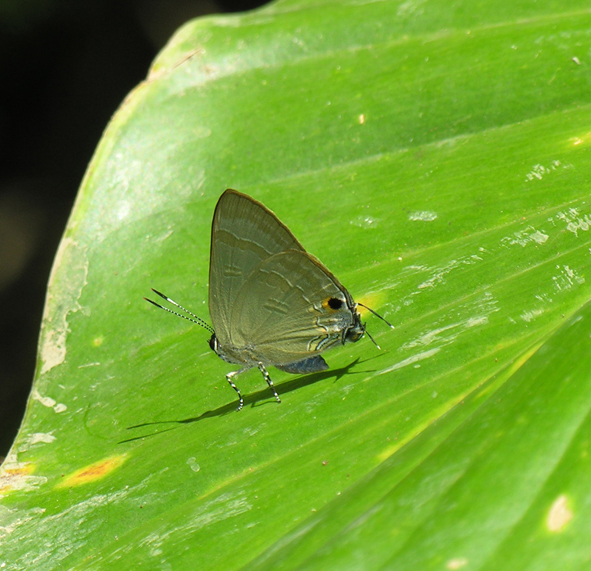 Rapala tomokoae, female, Mt. Canlaon, Negros Is. Philippines